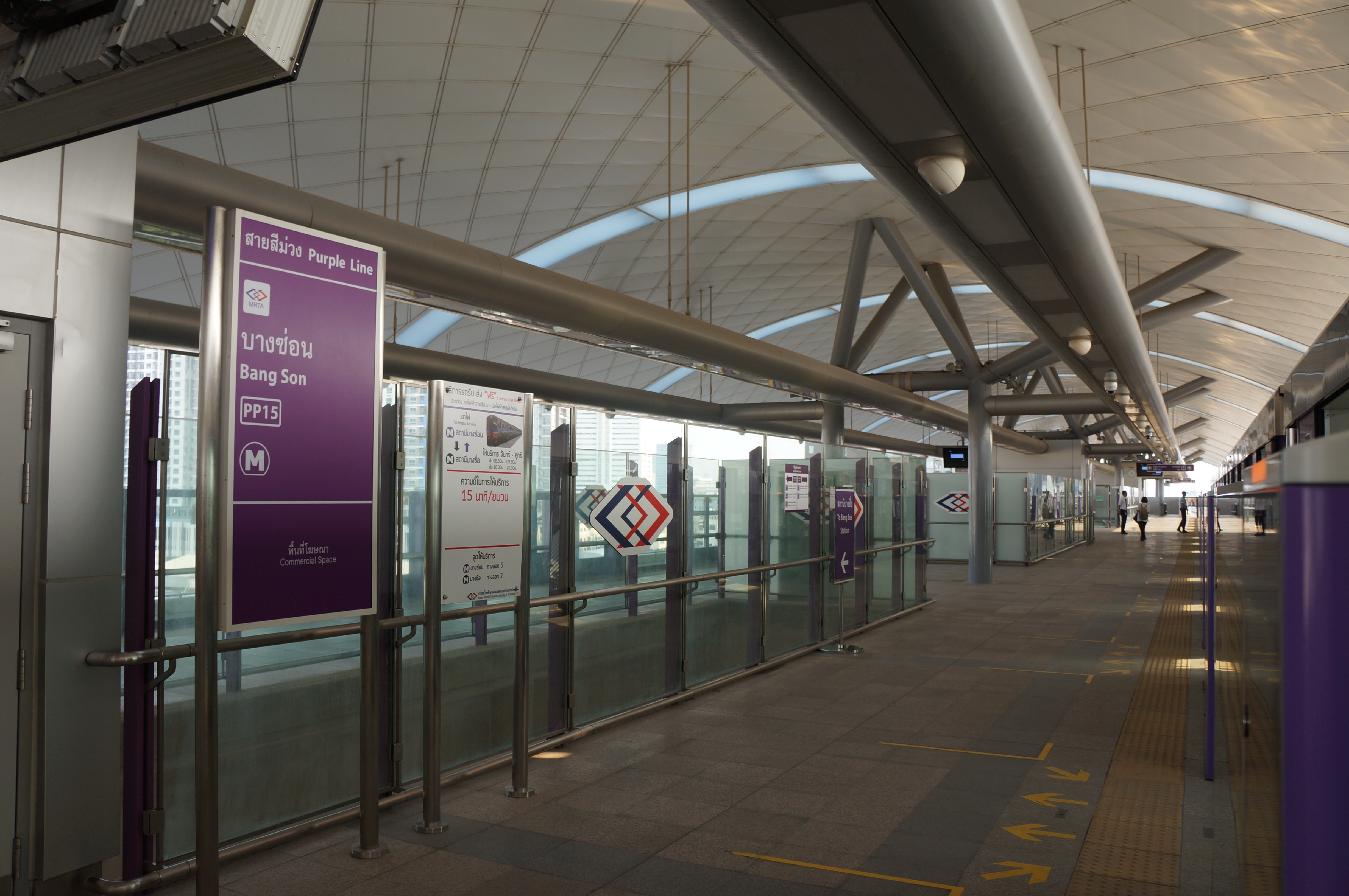 201701 Bang Son Station